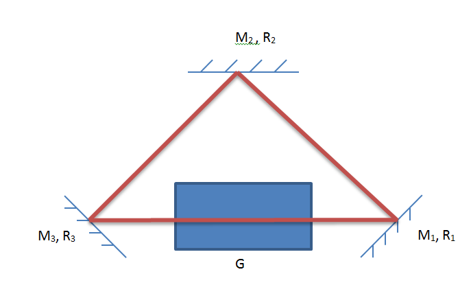 Exemple of ring cavity with 3 mirrors